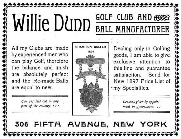 An 1897 advertisement of the golf business of Willie Dunn, Jr. (1864-1952) on Fifth Avenue in New York.